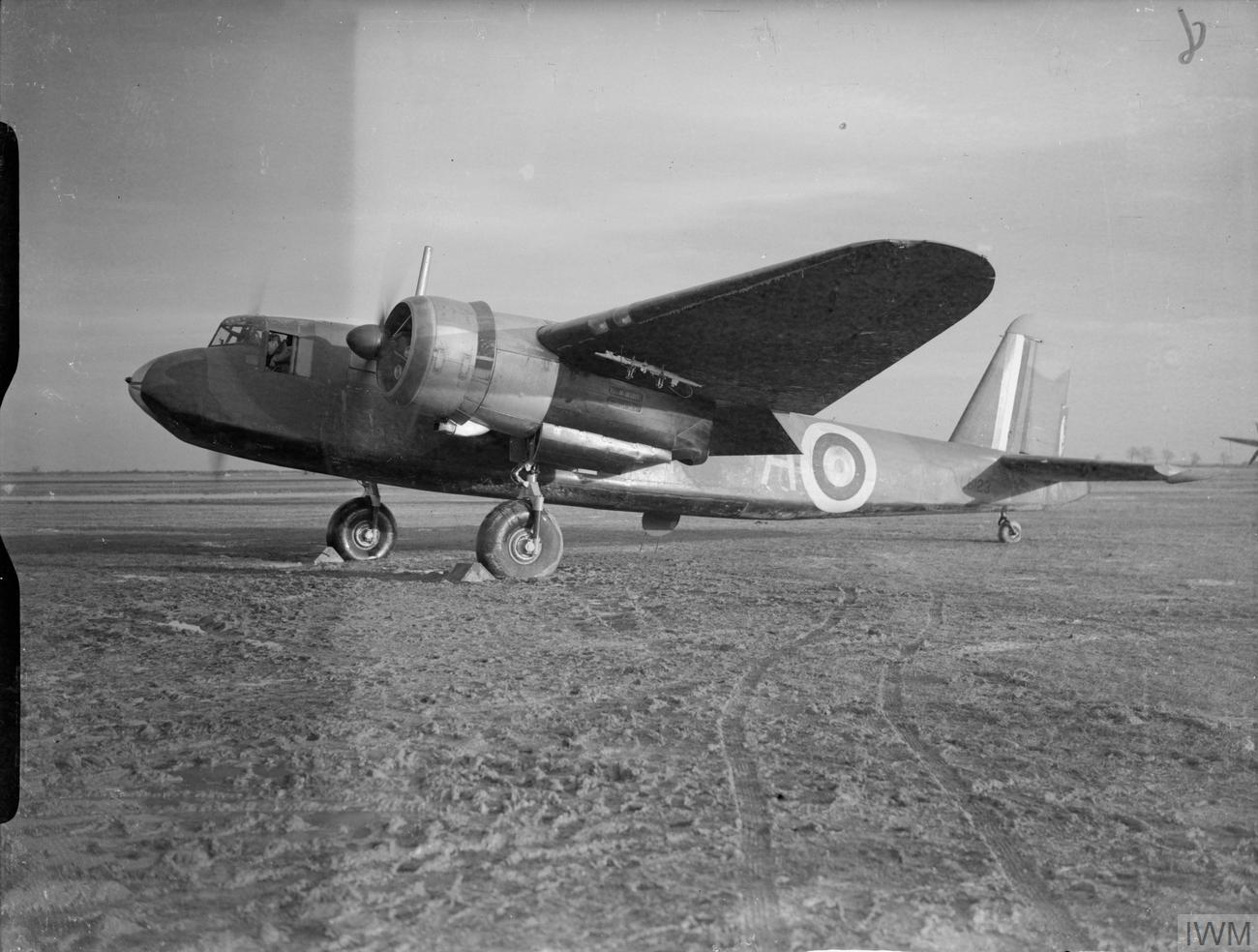 IWM caption : Botha Mark I, L8123 'A', of No. 1 (Coastal) Operational Training Unit, running up its engines at Silloth, Cumberland.